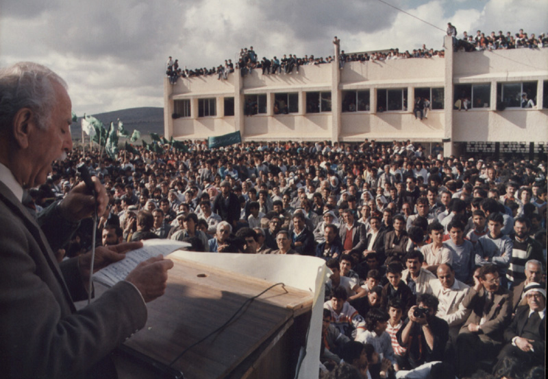 Land Day 1988, speech of Tawfik Toubi, Deputy-Secretary of the Hadash party, in the Public Rally Marking Land Day in Sakhneen.